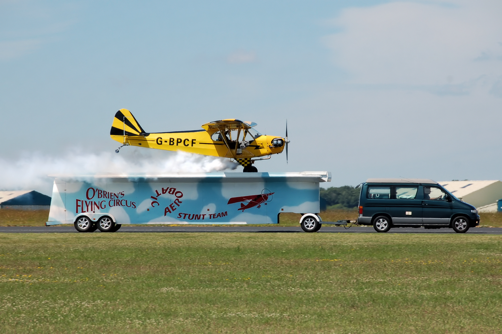 A modified Piper J3C-65 Cub (G-BPCF, built 1940), of O’Brien’s Flying Circus Stunt Team, lands on a towed trailer at the Cotswold Air Show at Cotswold Airport, Kemble, Gloucestershire, England. Notice that the tail wheel is still in the air.